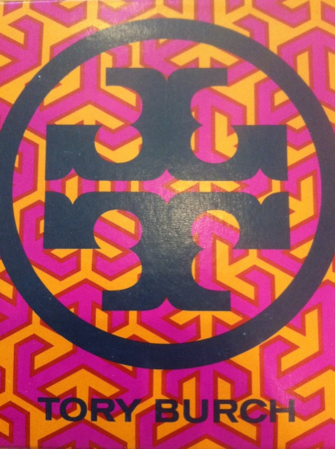 Tory Burch logo design from shoebox in 2012